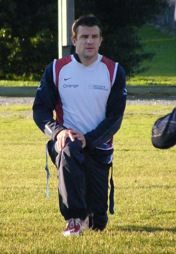 Damien Traille - French Rugby Union Training - Moore Park, Sydney 23 June 2009